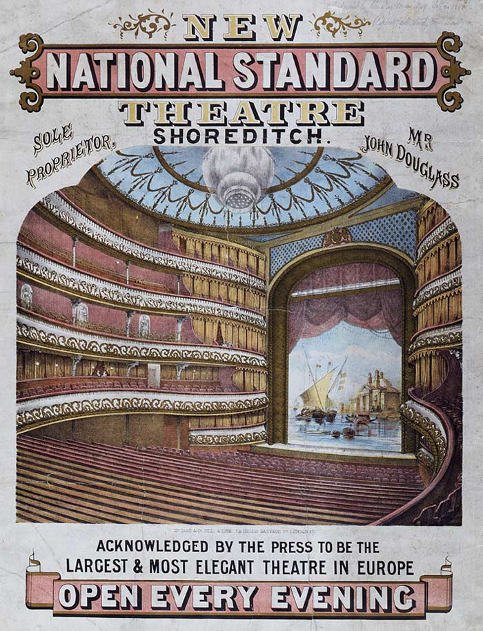 1867 National Standard Theatre Poster. In the collection of the Theatre Museum